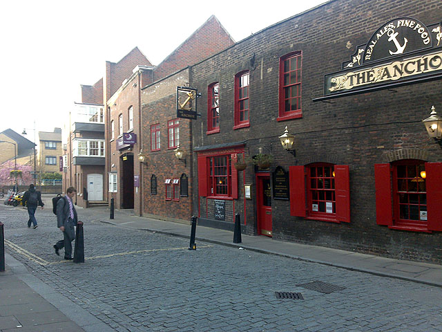 The Anchor and Southwark Premier Inn